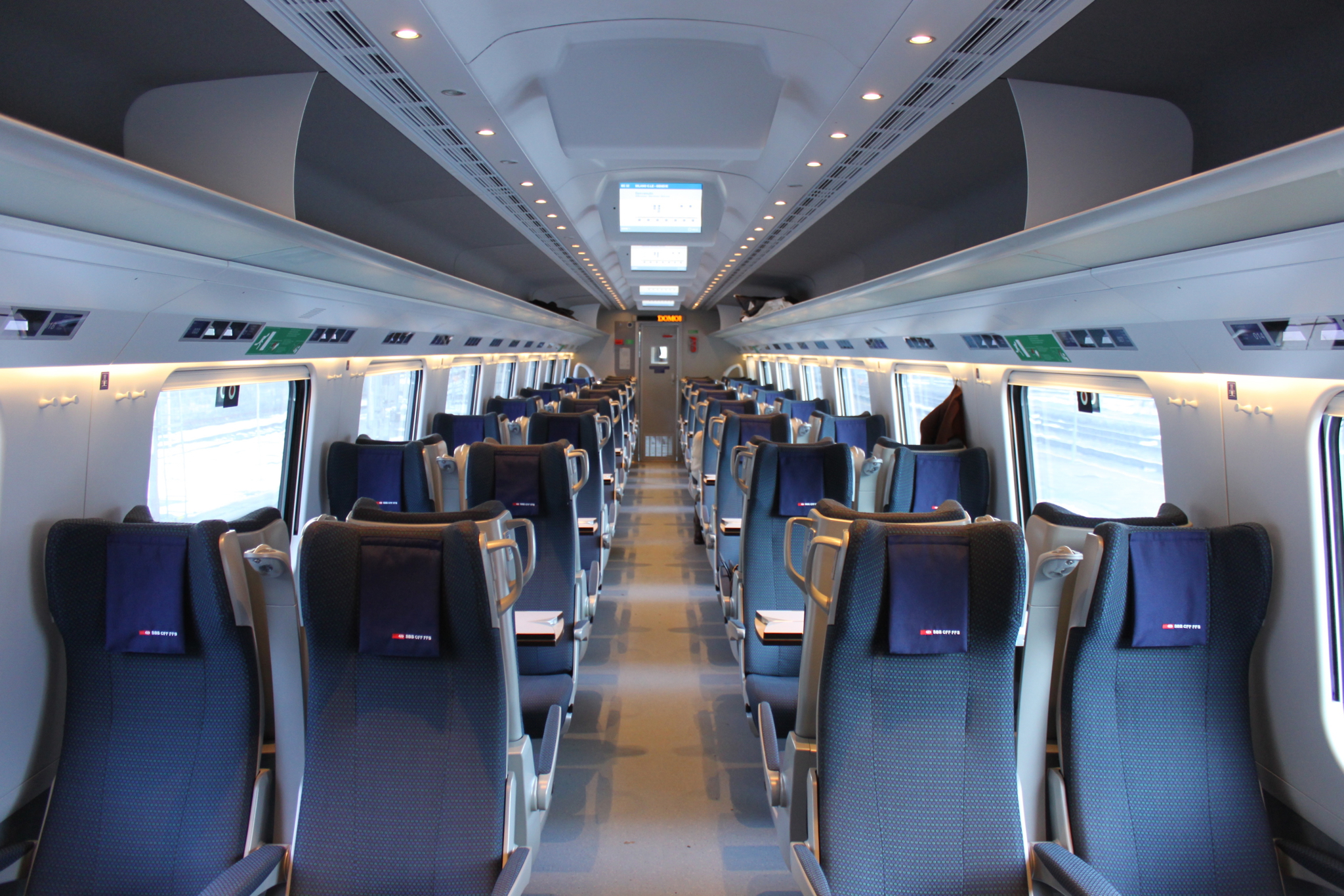 2nd class interior of Cisalpino ETR 610 009 tilting train (coach #7). The train was hired to SBB CFF FFS.